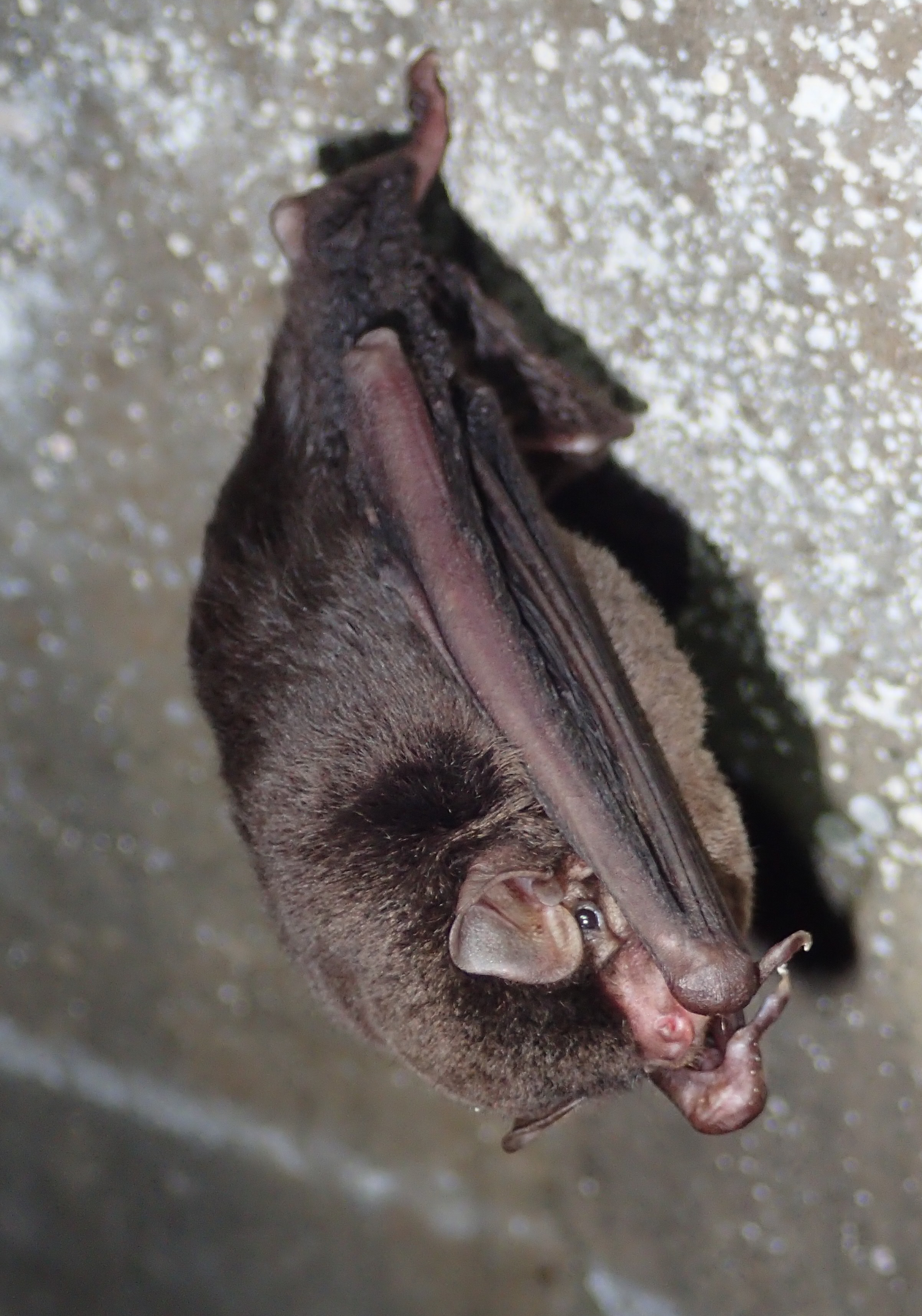 Eastern Bent-winged Bat, Miniopterus fuliginosus